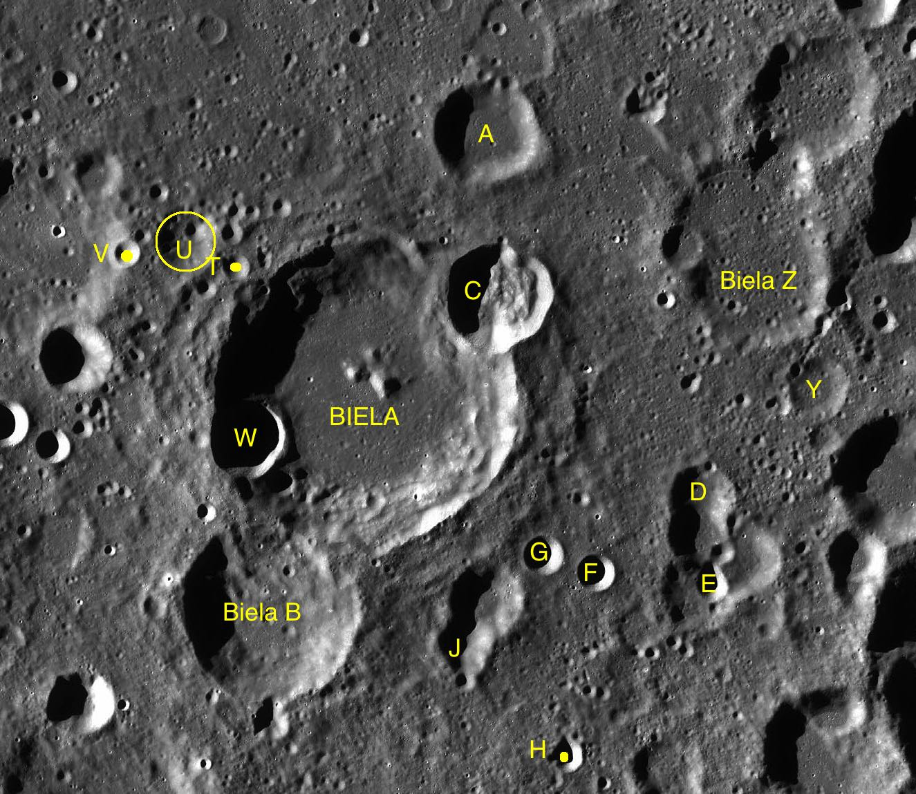 Part of the chart LAC-128 used for the presentation.